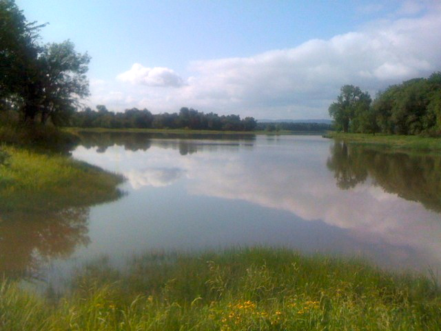 Sturgeon Lake, a lake on Sauvie Island, which is where the Willamette River splits near its mouth in Portland, Oregon, United States